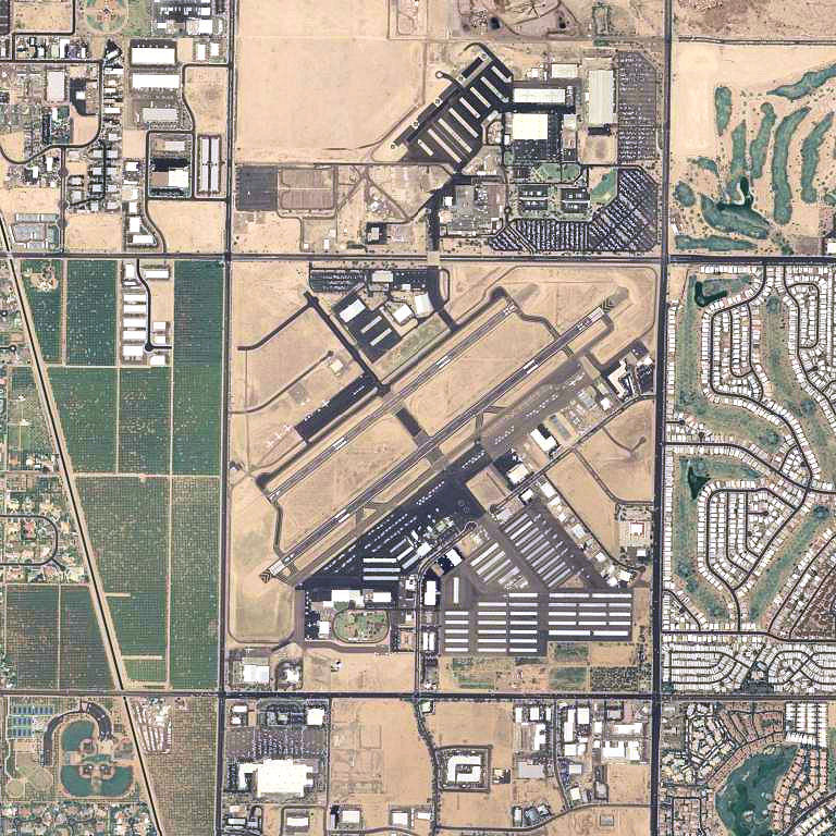 USGS digital orthophoto of Falcon Field, an airport in Mesa, Arizona, United States